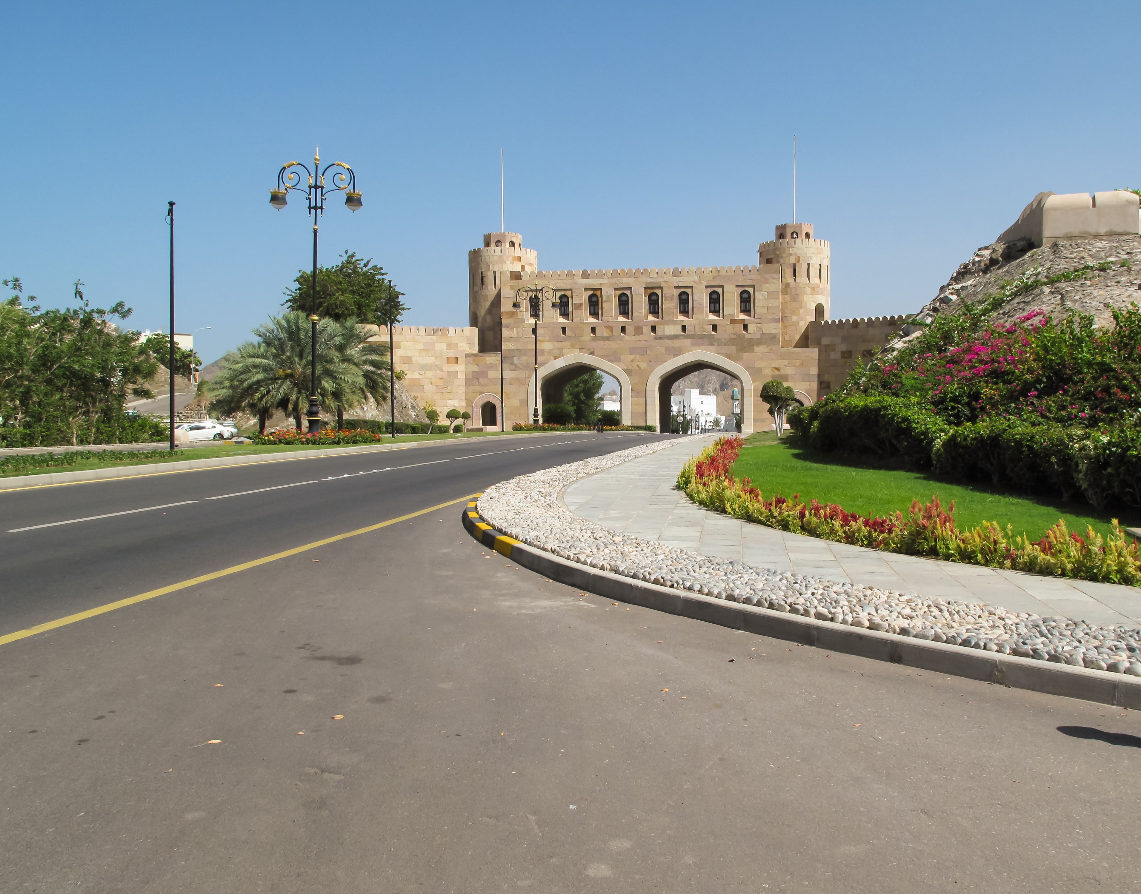 The gate to Muscat